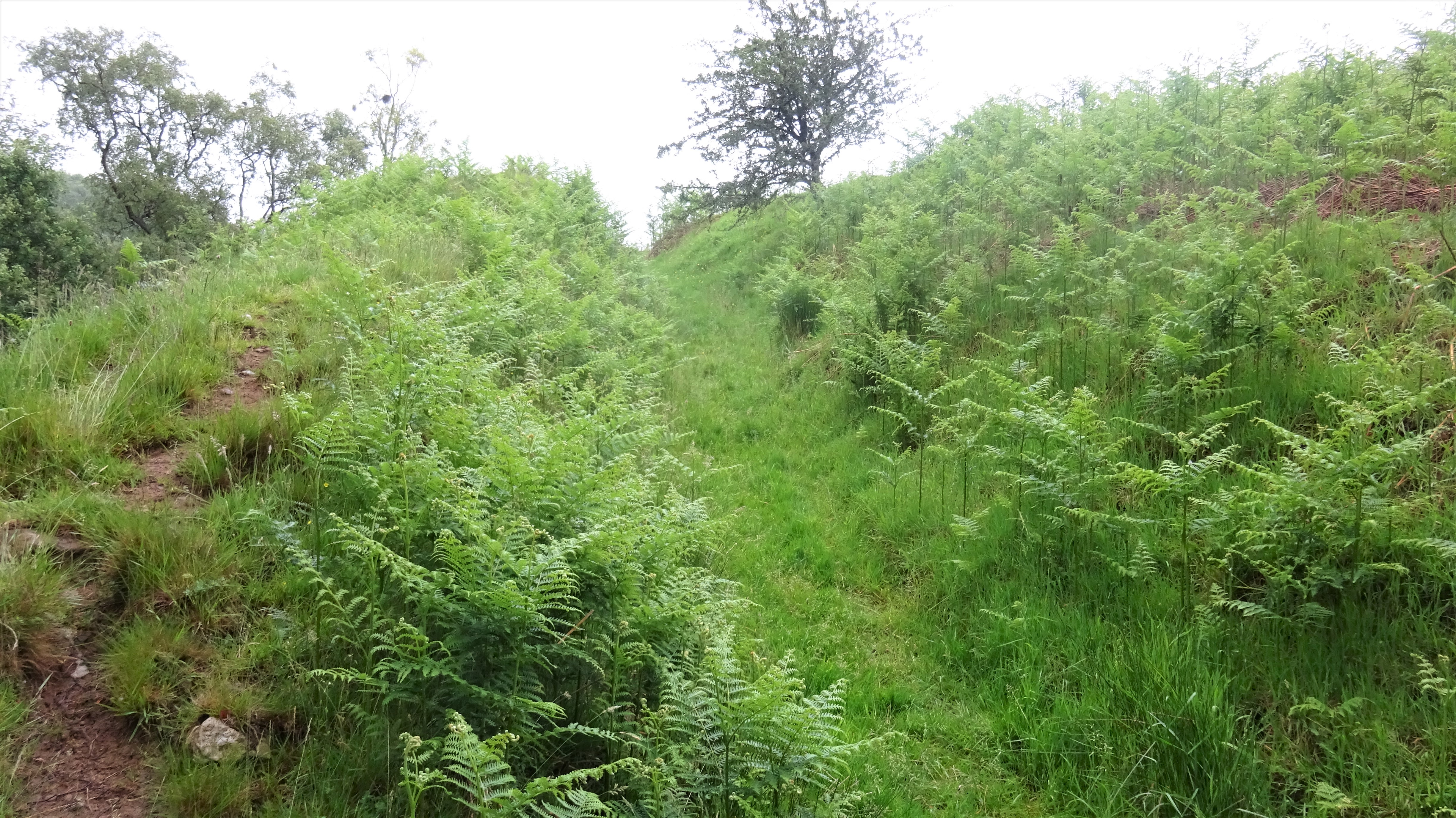 Kyle Castle covered access way from the west, Dalblair, East Ayrshire, Scotland. Held by the Farquhars of Gilmilnscroft in 1445, then the Cunninghames and the Stewarts of Bute. Old Kyle Regis area. Locally known as Coila Castle.